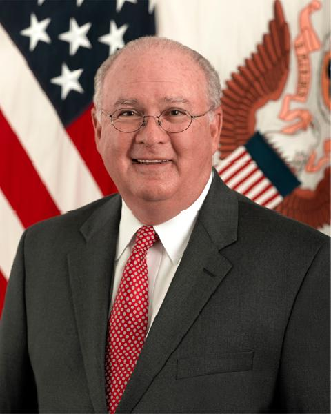 Joseph W. Westphal